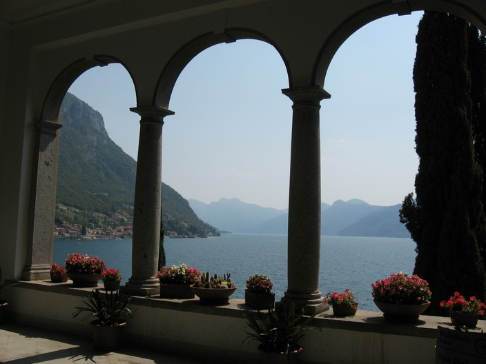 View of the Lake